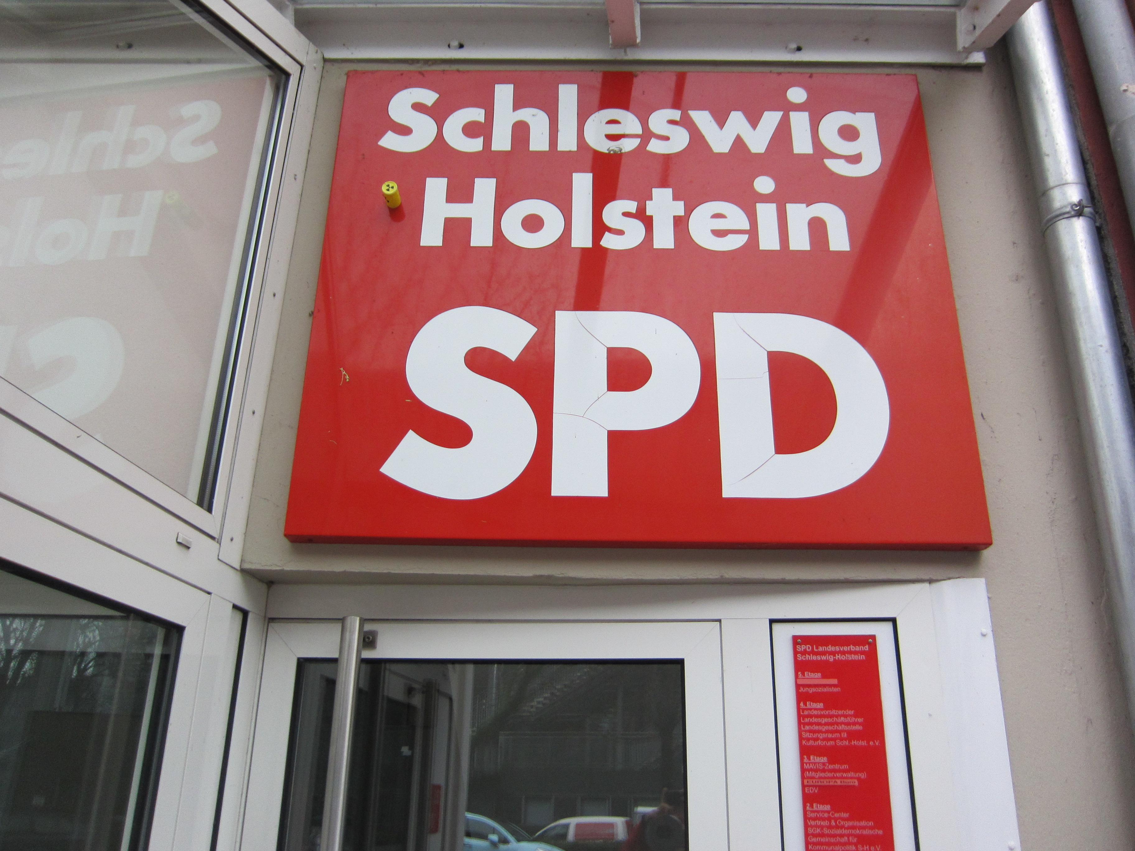 Bureau of the SPD Schleswig-Holstein in Kiel-Vorstadt